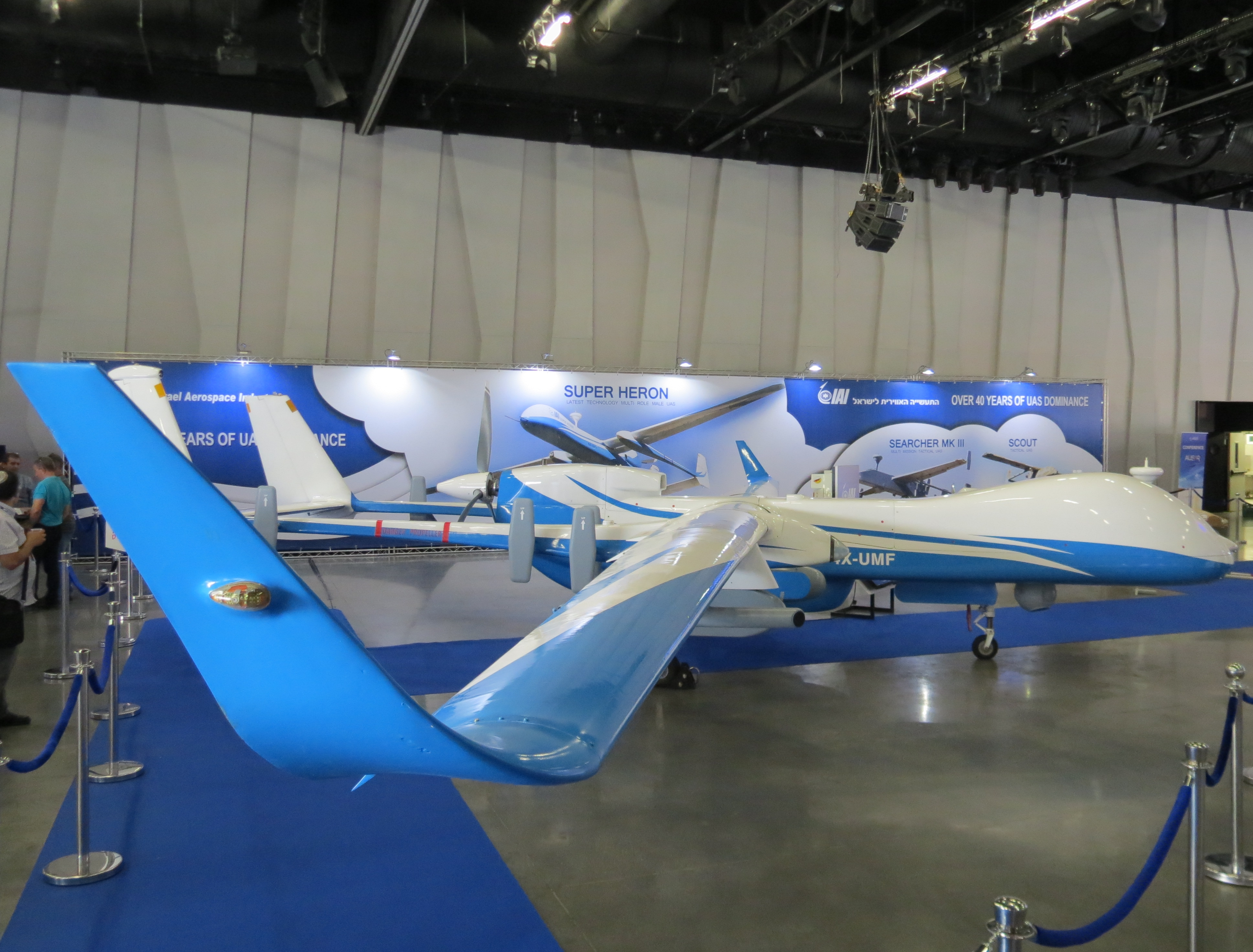 4X-UMF Super Heron HF, UAV , Produeced by IAI presented at the at the Air-Show to commemorate 40 years of UAV 's in Israel. The air show took place at Rishon LeZion Israel.